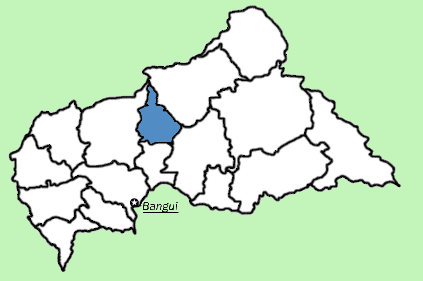 Map showing location of Nana-Grébizi_Prefecture in Central African Republic